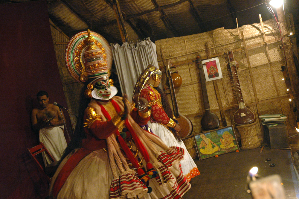 A performance of Kathakali in Kochi, Kerala, India. Photograph by Henryk Kotowski